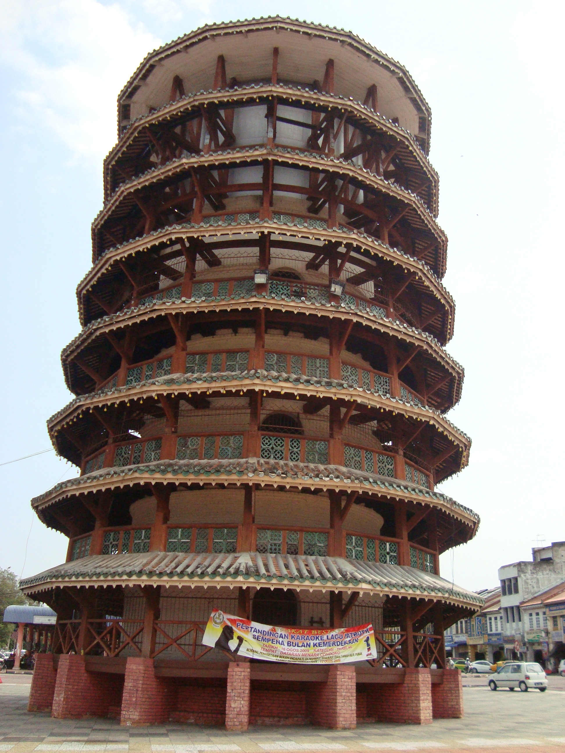 The Leaning Tower of Teluk Intan in Teluk Intan, Perak, Malaysia. Designed after the Tower of Pisa.